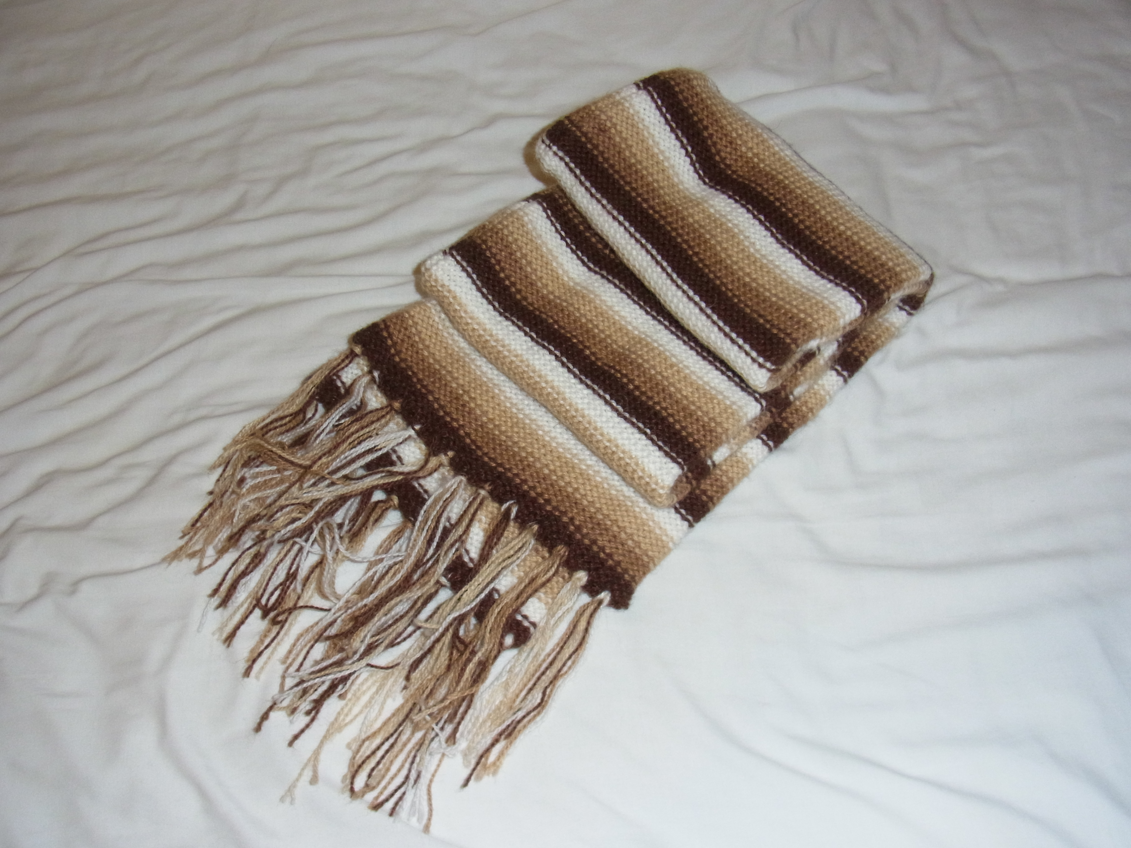 A scarf made from alpaca wool. Purchased in Cambridge, UK.